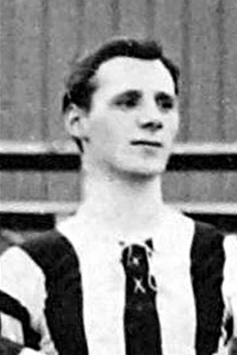 Chris Duffy while with Newcastle United in 1906/07